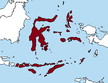 Wallacea Map